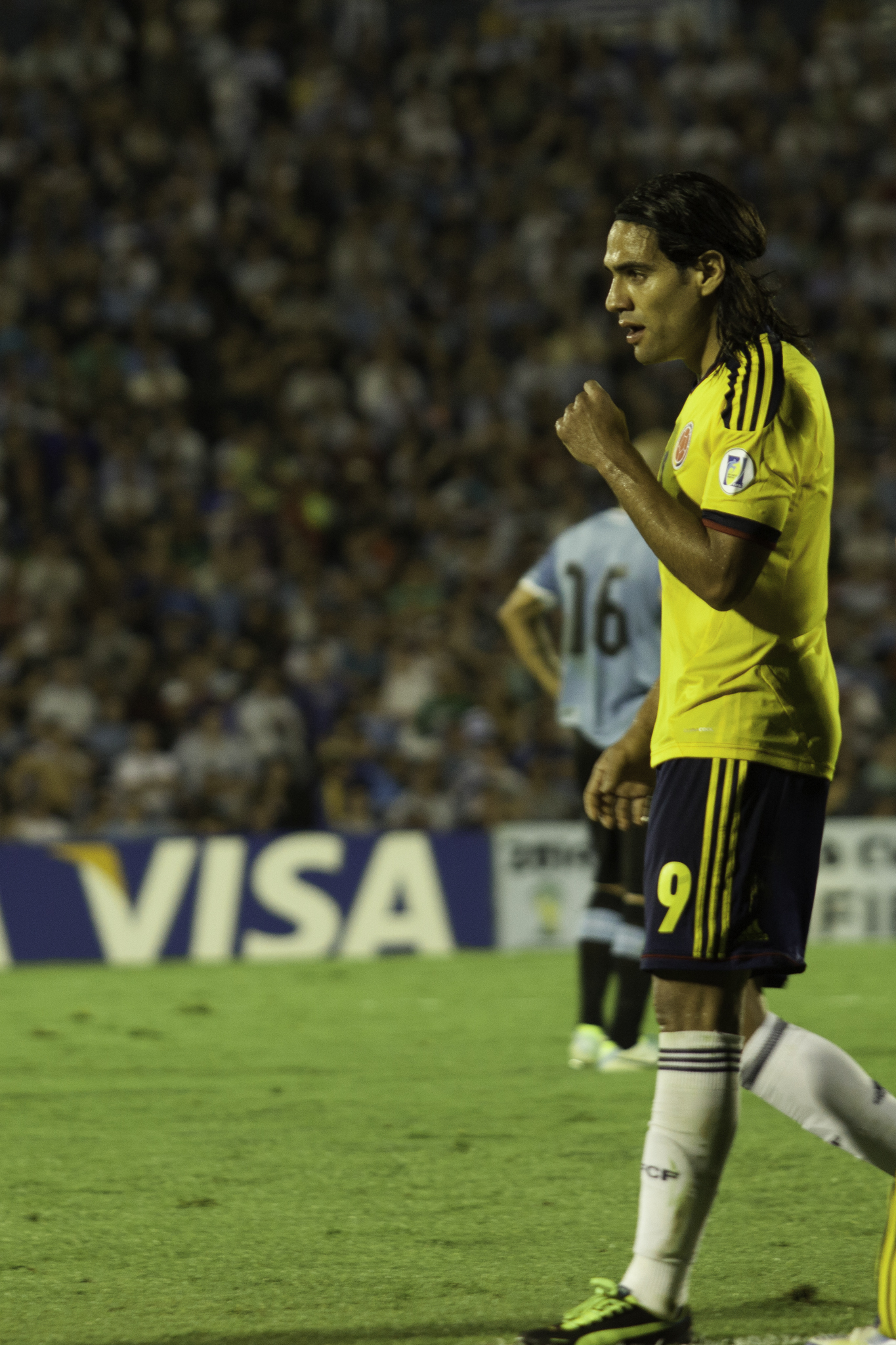 Radamel Falcao playing against Uruguay in September 2013.